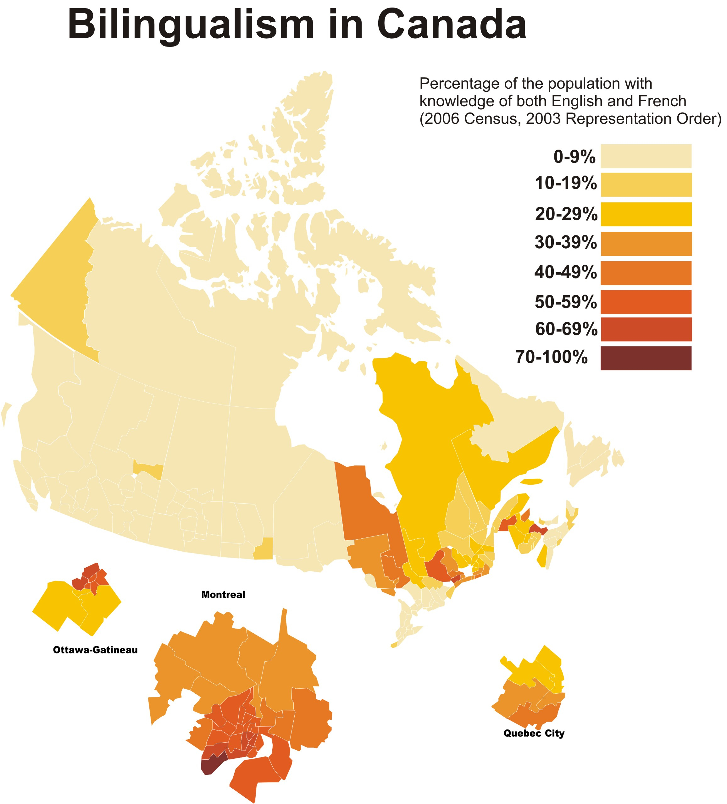 This is a map of Canada showing bilingualism by federal electoral riding based on the 2003 representation order